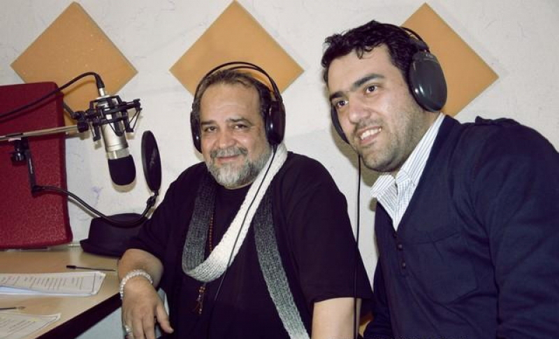 Mehrdad Raissi and Sharifiniya working on "Tehran 1500"